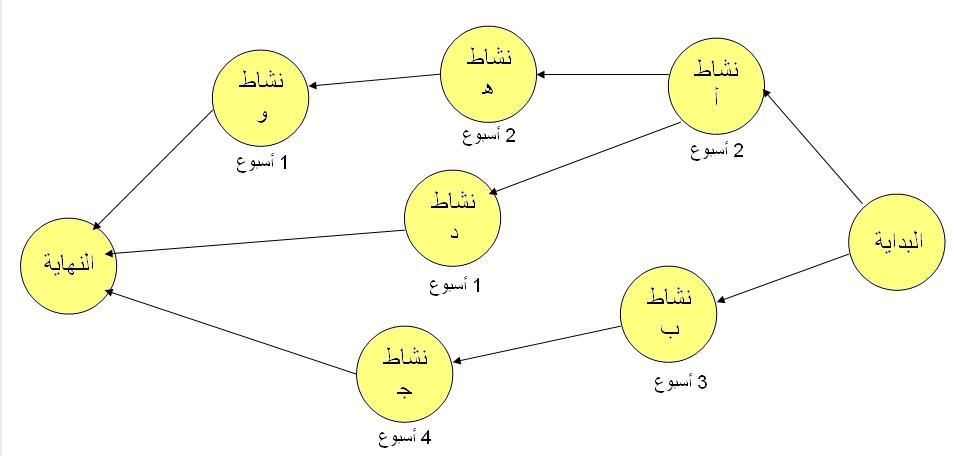 is a diagram as an example on the network diagram in the "critical path method"